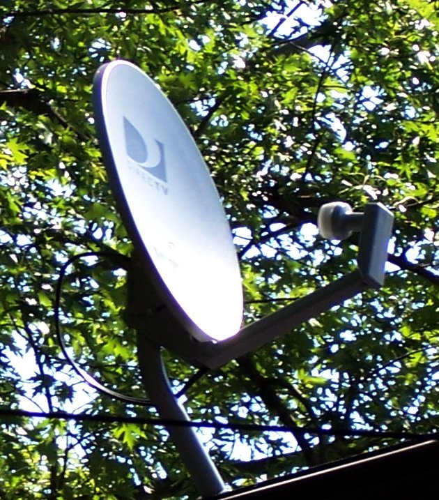 DirecTV satellite dish with an single lnb on the house roof in Delaware. Uploaded originally by User:Bisteca